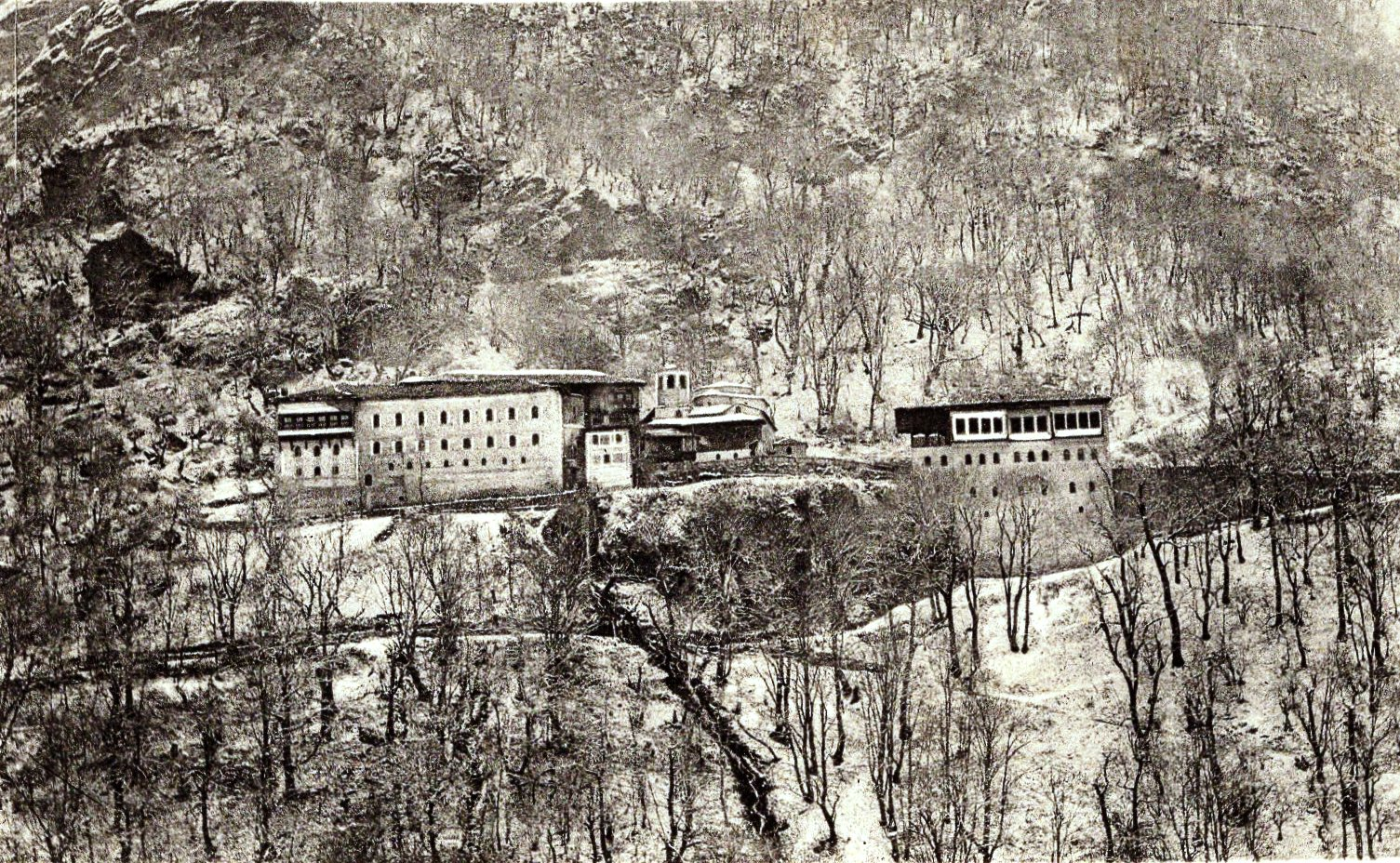 An old postcard of Bigorski Monastery This media file is produced by Wikipedian in Residence in Category:Wikipedian in Residence at DARM in 2016.